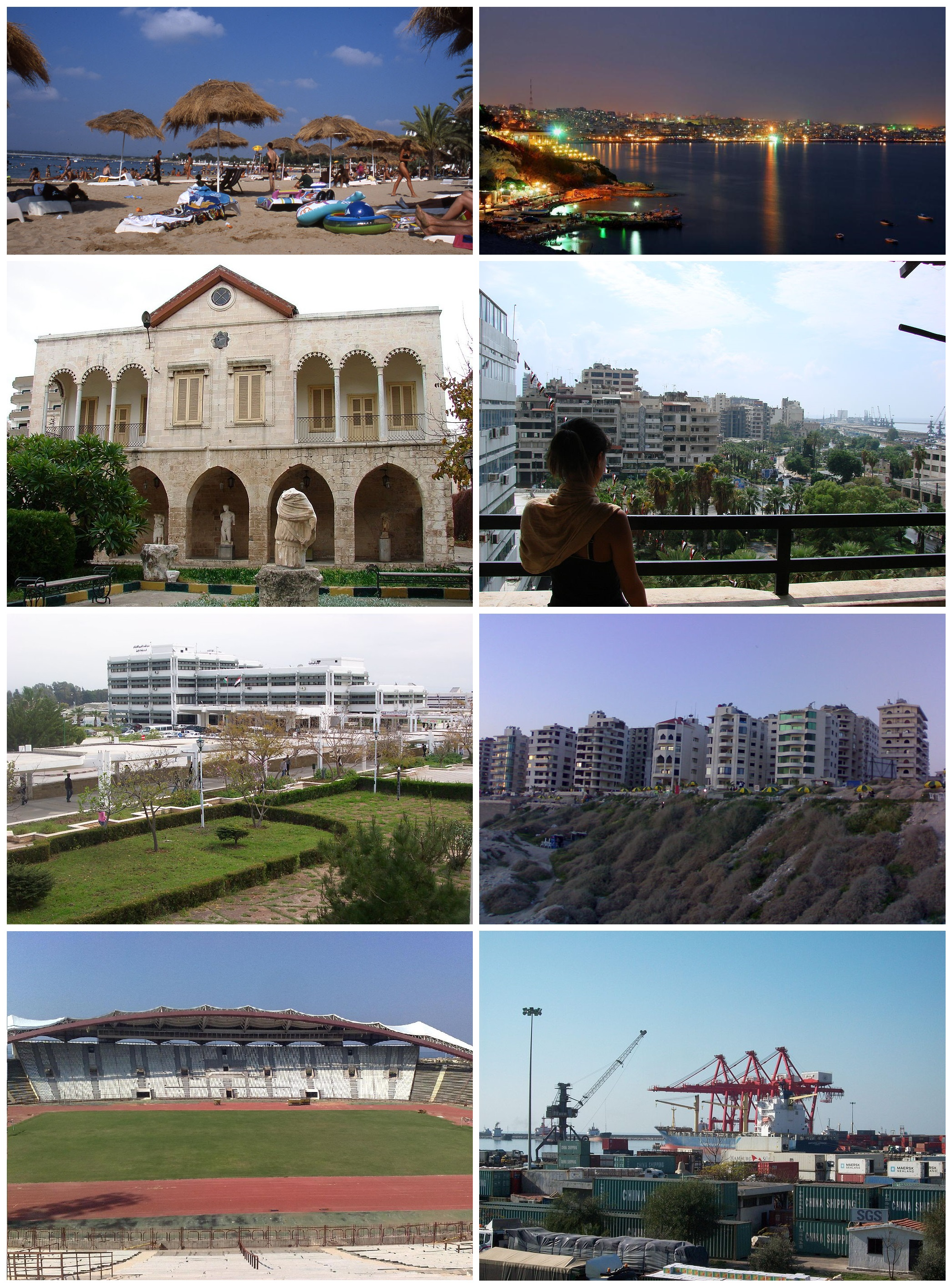 Latakia, Syria.